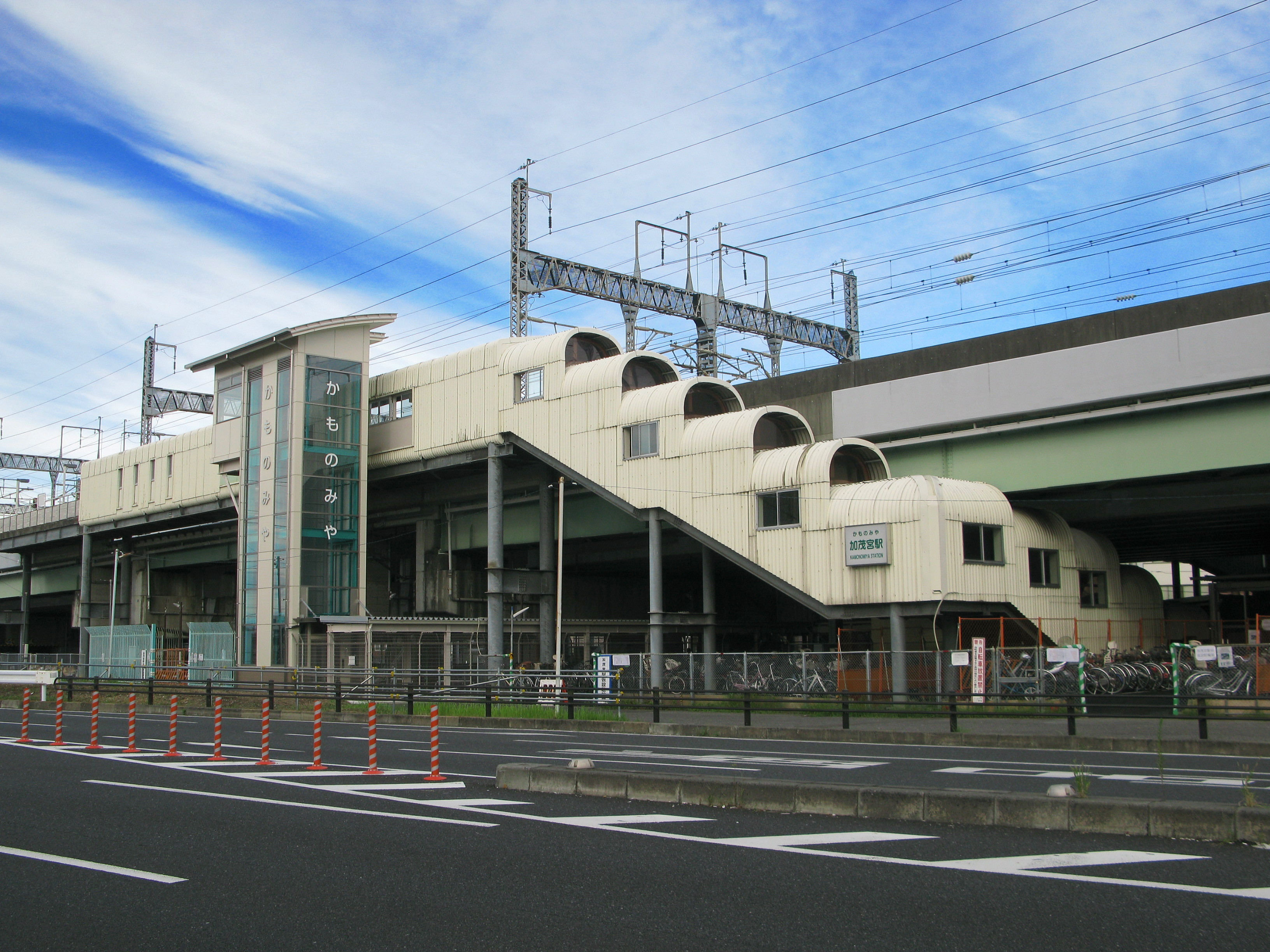 Kamonomiya Station on the New Shuttle in Kita-ku, Saitama, Saitama Prefecture, Japan